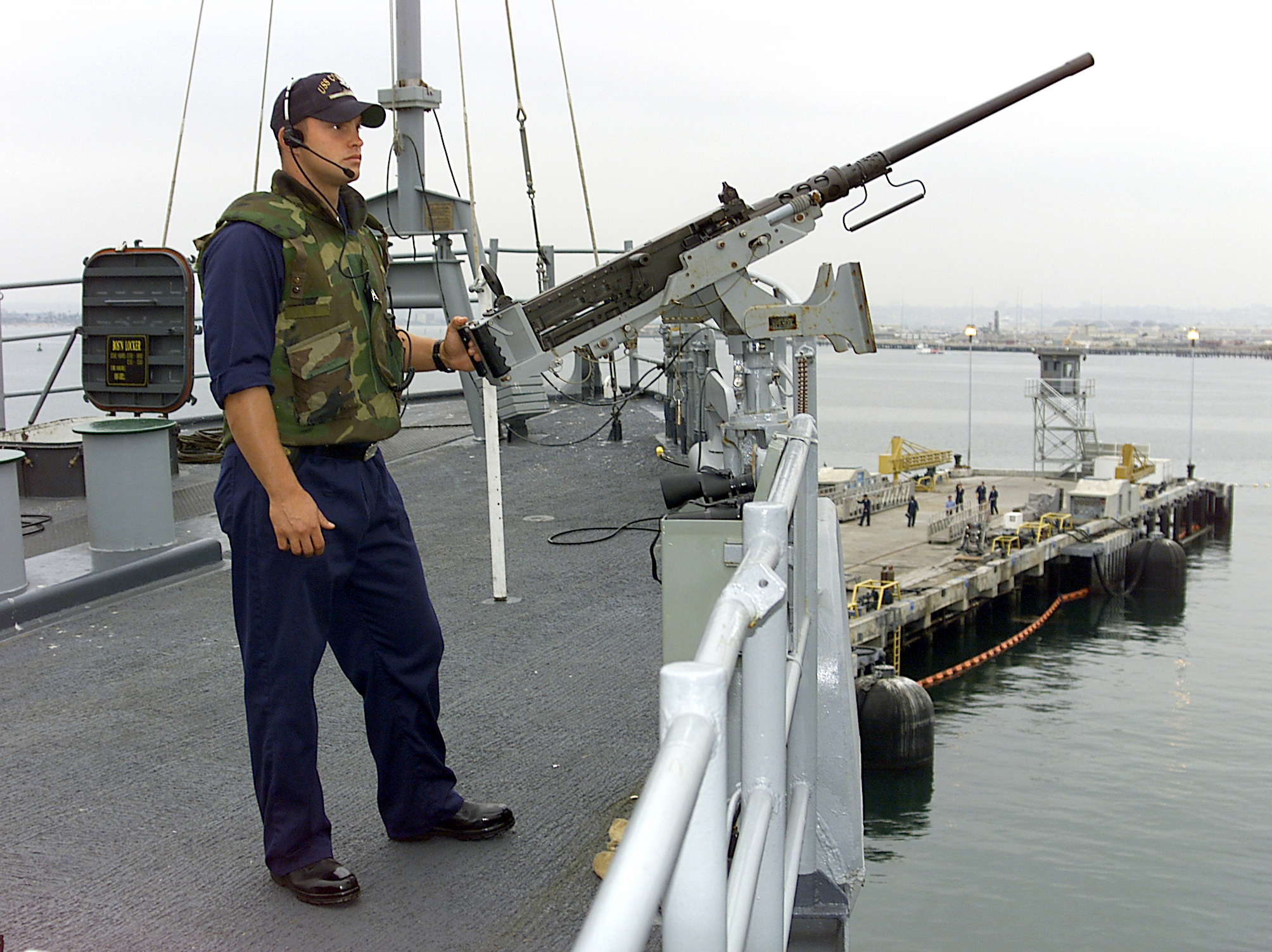 010912-N-1205P-242 San Diego, Calif. (Sept. 12, 2001) -- A Sailor aboard the auxiliary command ship USS Coronado (AGF 11), command ship for U.S. Third Fleet, keeps a vigilant watch near the entrance of San Diego Harbor. U.S. Navy photo by Journalist 1st Class Palmer Pinckney. (RELEASED)